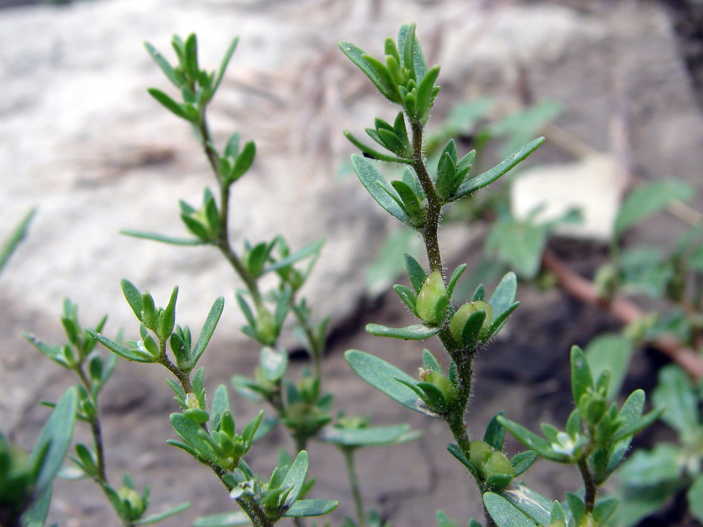 Veronica peregrina L. ssp. xalapensis (Kunth) Pennell - hairy purslane speedwell